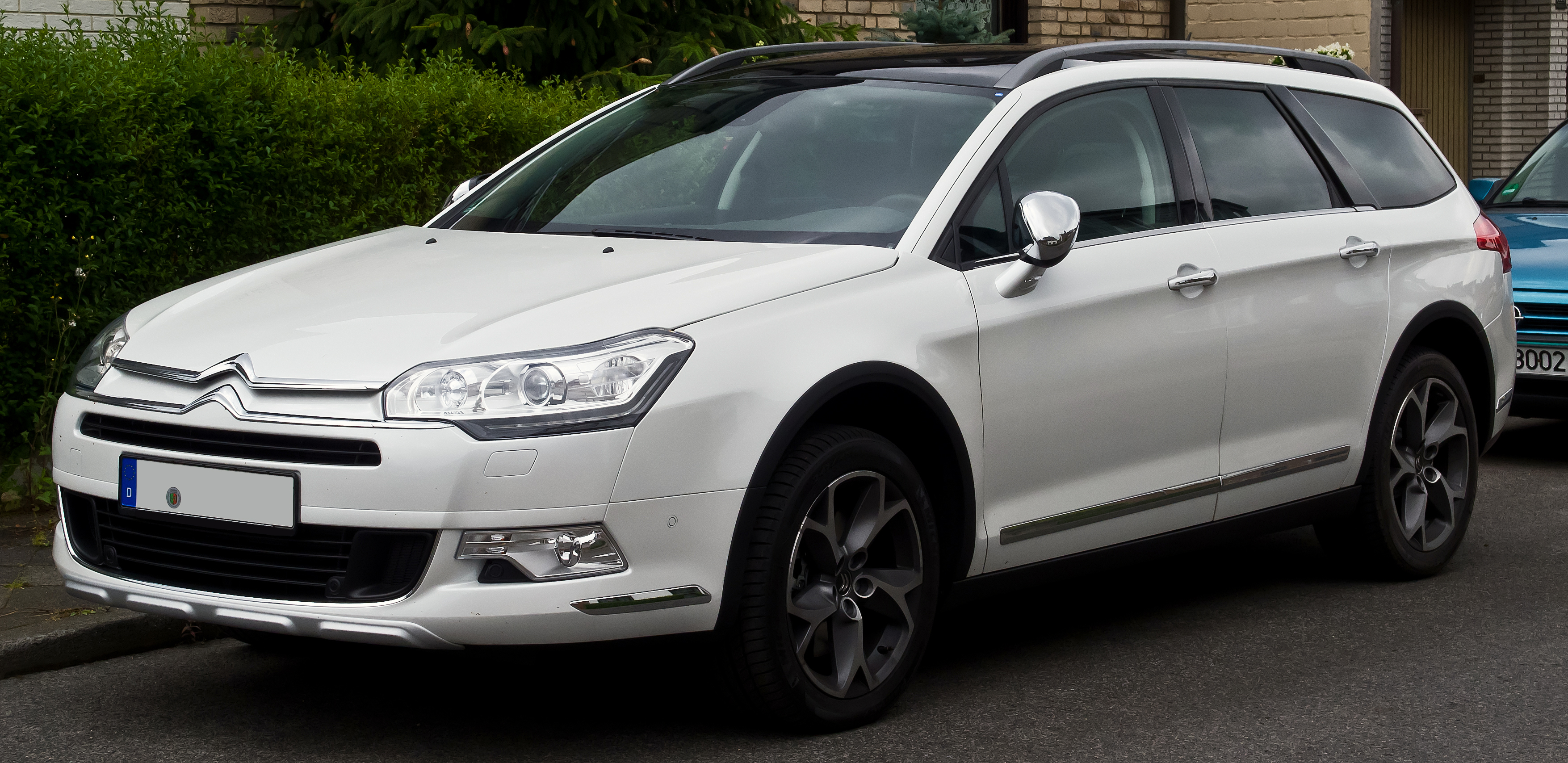 Citroën C5 CrossTourer HDi 200 (II, Facelift)